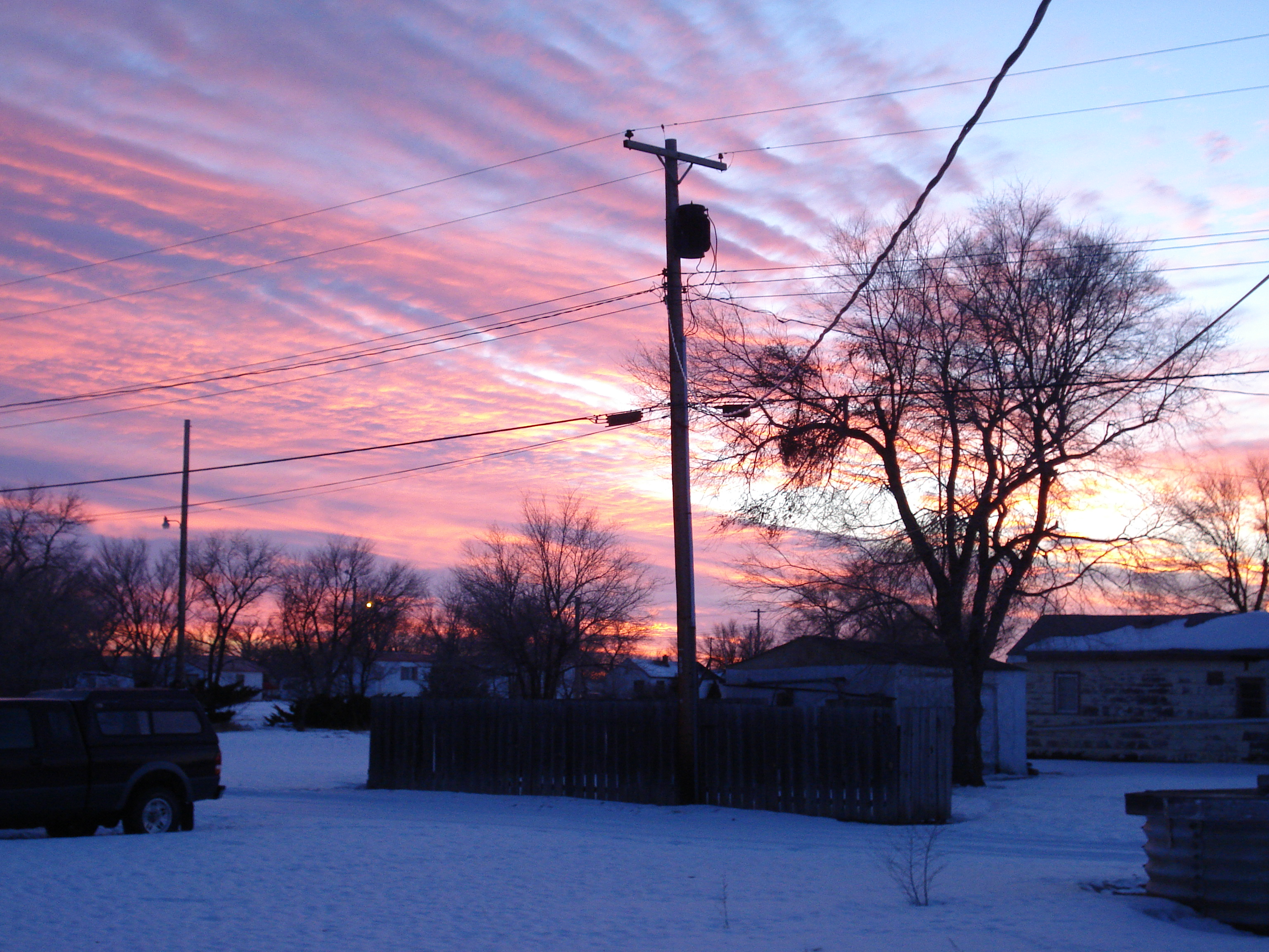 Sunsets over the snow in Terry are often very colorful.